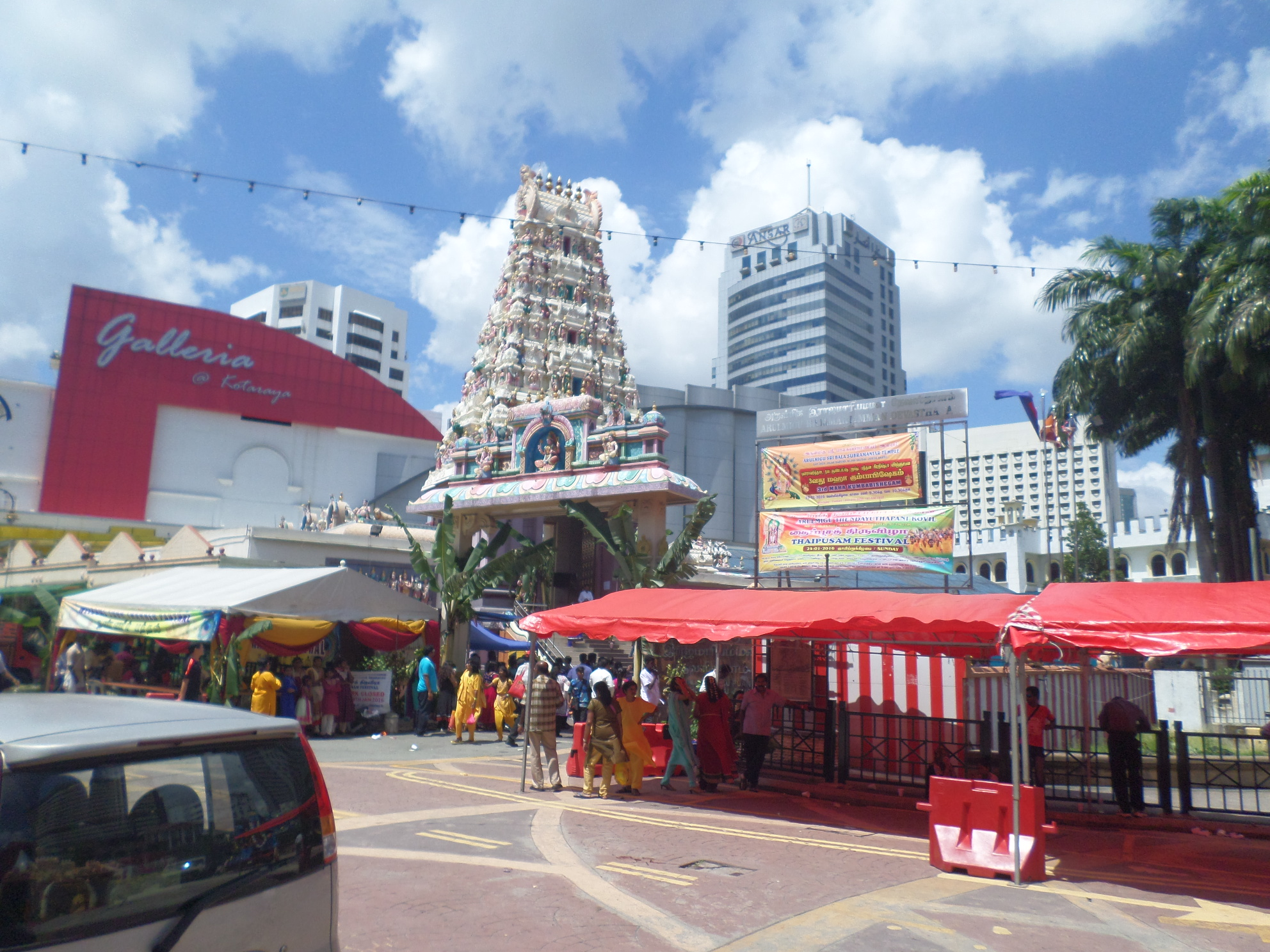 Arulmigu Rajamariamman Devasthanam Temple, Johor Bahru, Johor, Malaysia